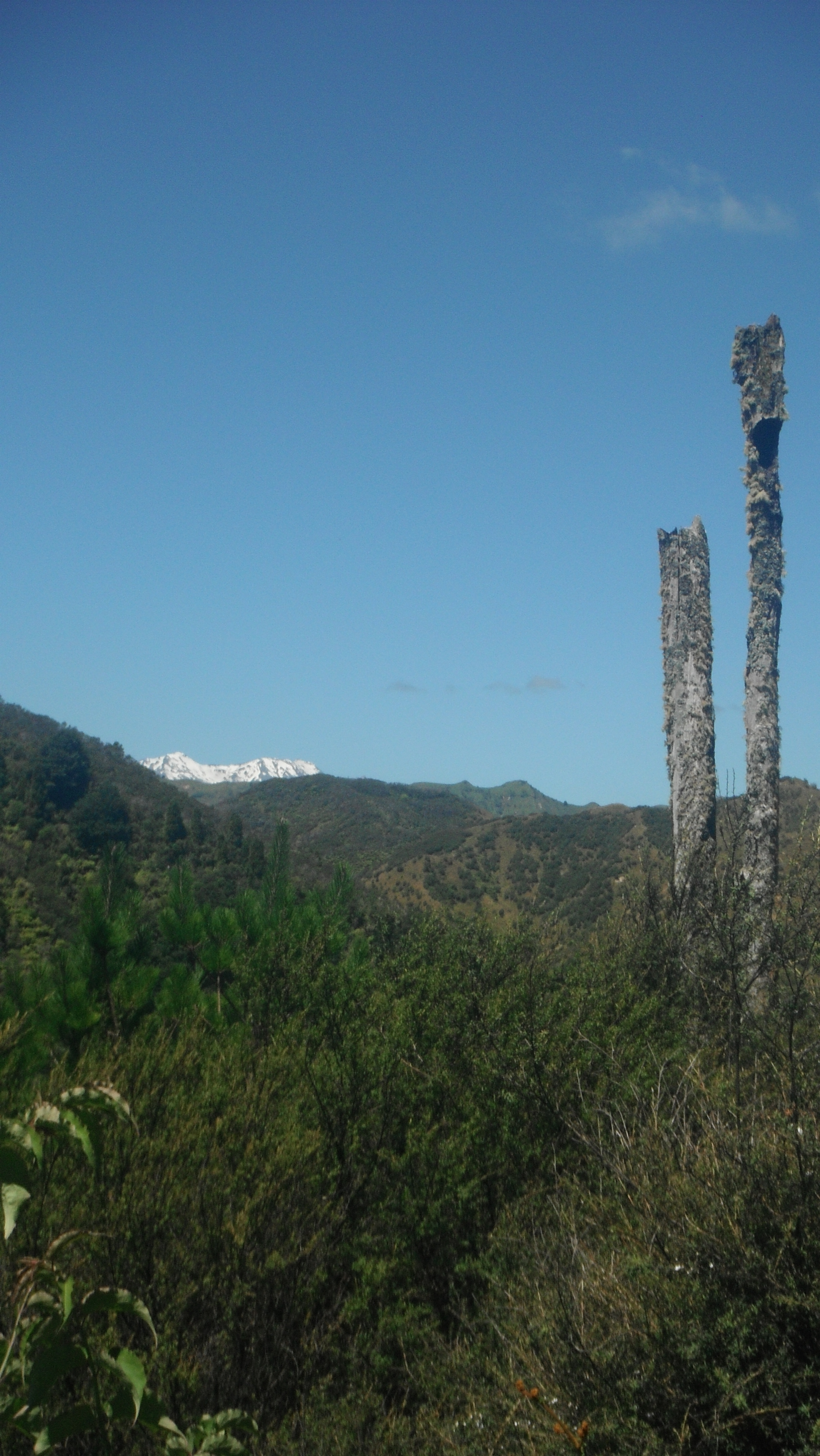 Mount Ruapehu in the Ruapehu District along Ruatiti Road